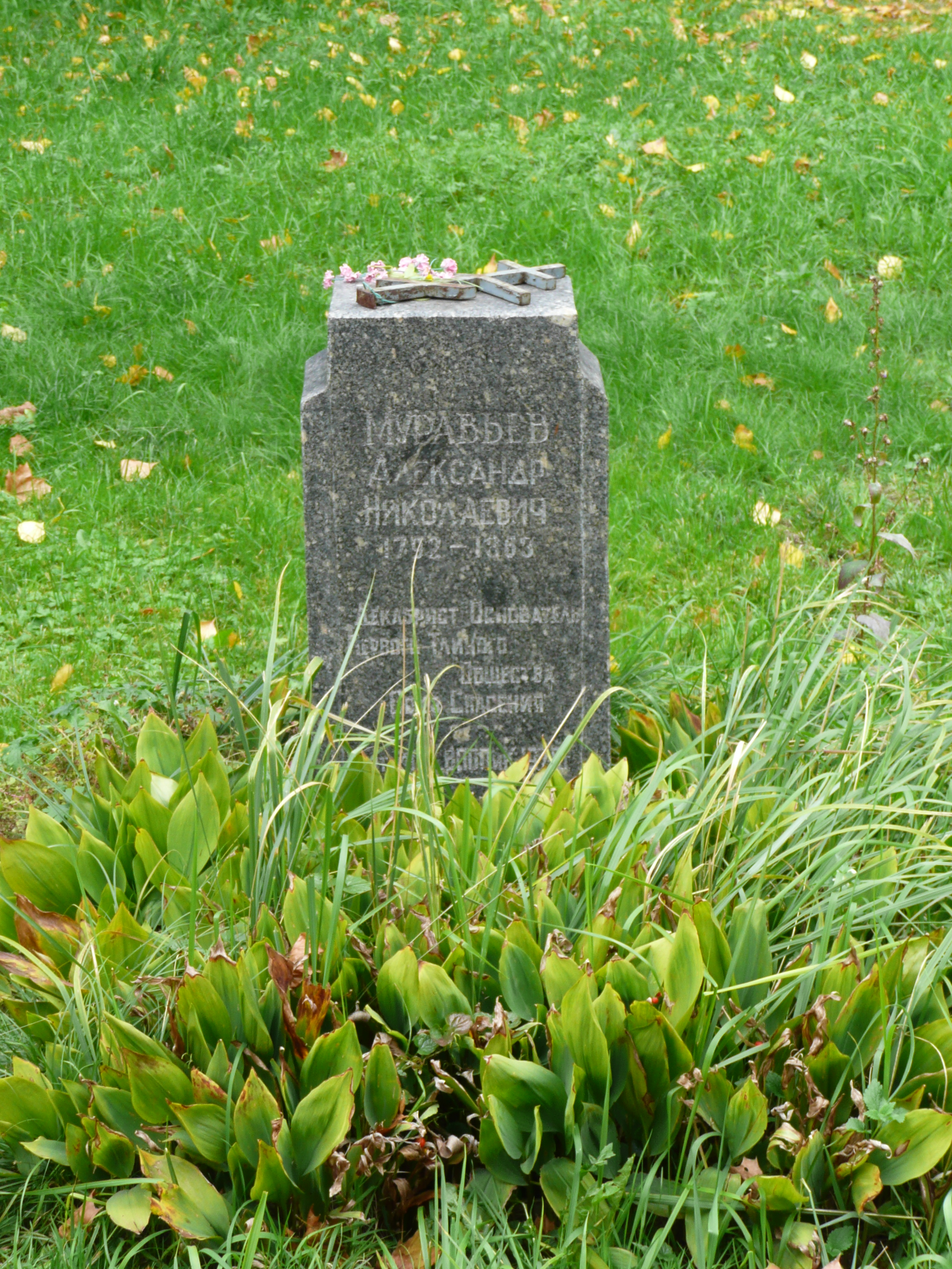 Tomb of Alexander Muravyov at the Novodevichy Convent, Moscow